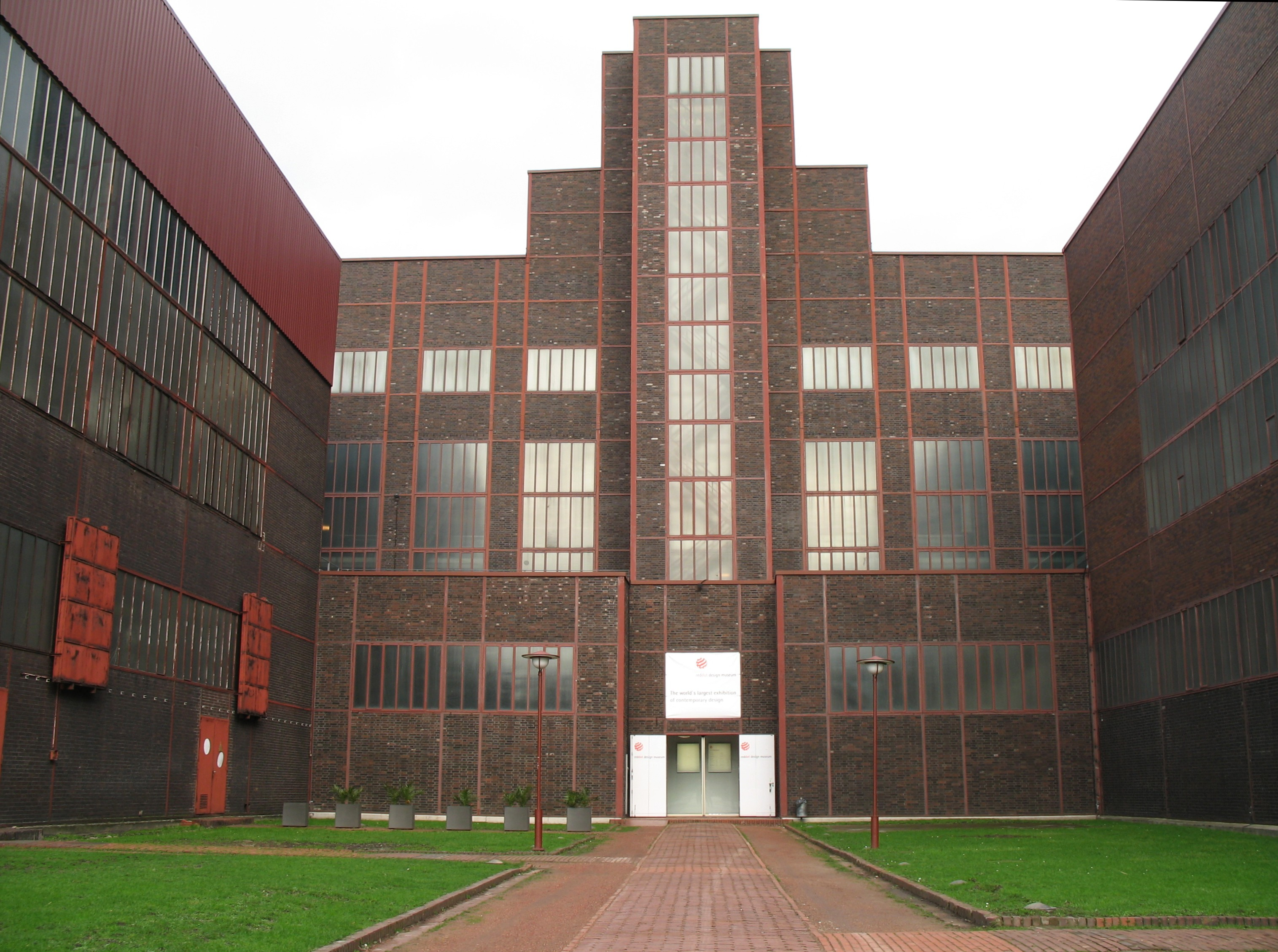 red dot design museum in the boiler house of the former coal mine Zollverein in Essen, Germany